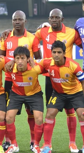 Okpara,Mehtab,Naoba and Chidi